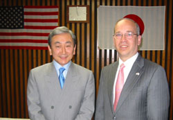 Governor of Kochi Daijiro Hashimoto(橋本大二郎) and consul general Daniel R Russel.